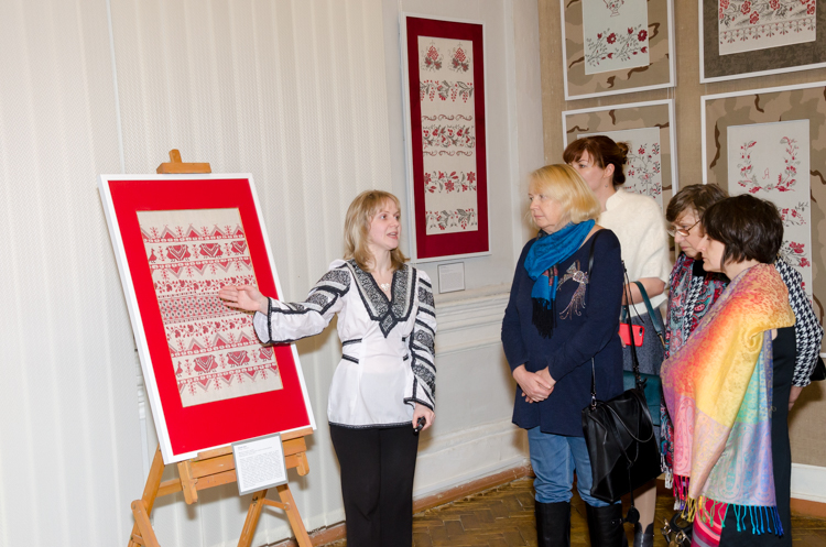 An exhibition guide tells the visitors about roosh-art